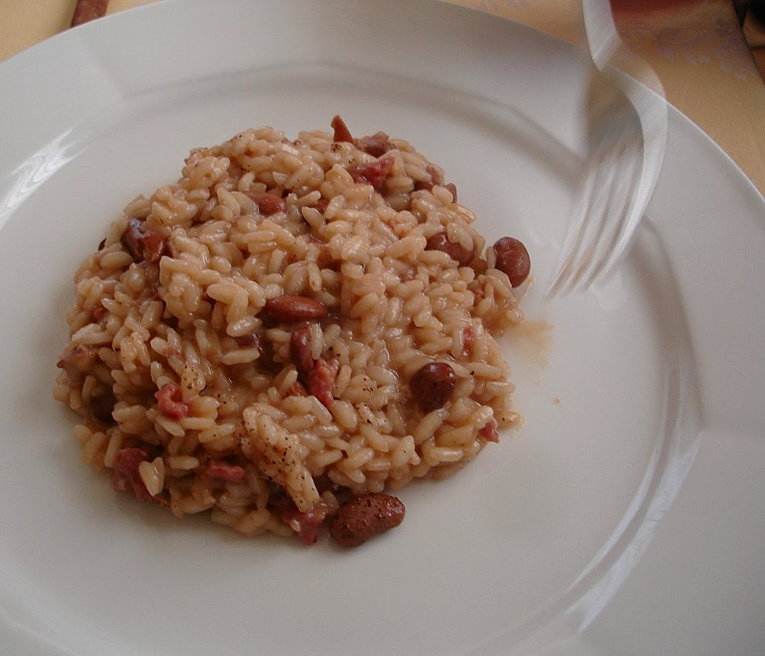 Panissa Vercellese